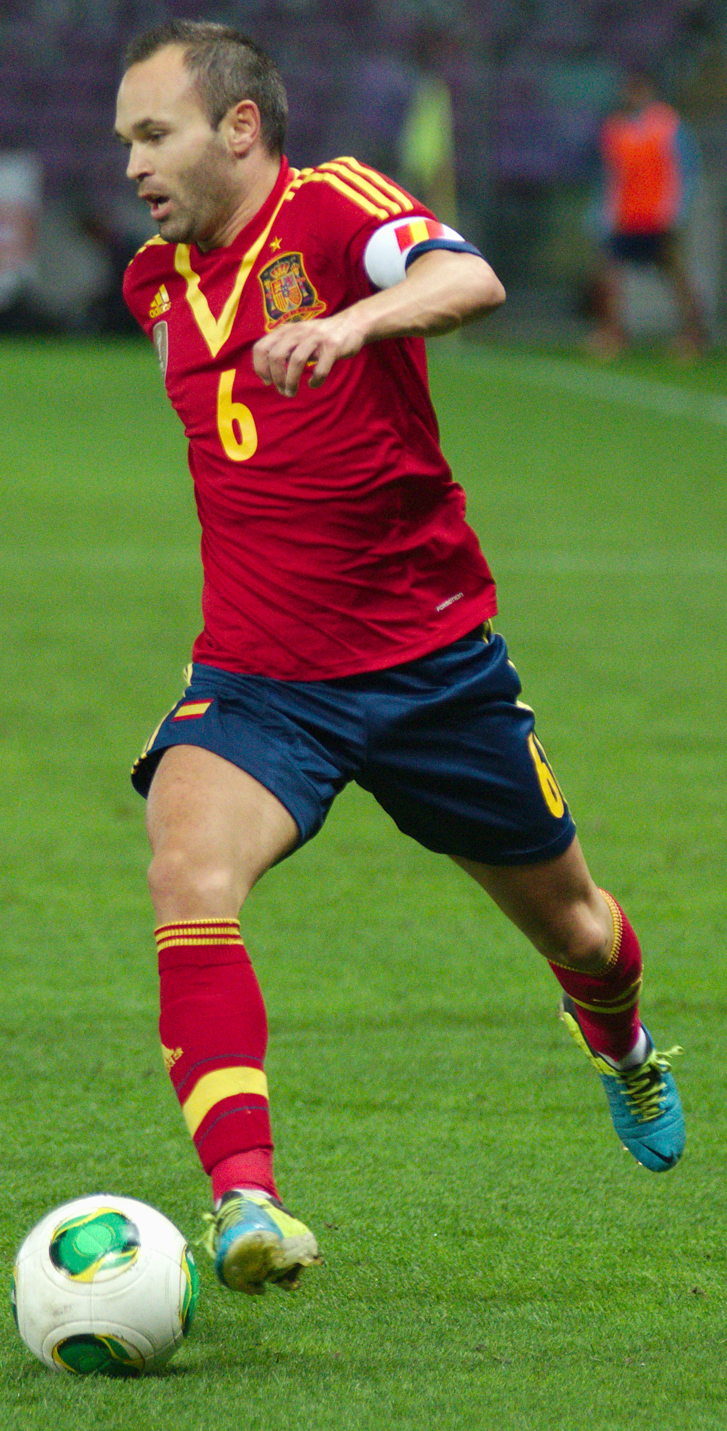 Spain - Chile - 10-09-2013 - Geneva - Andres Iniesta